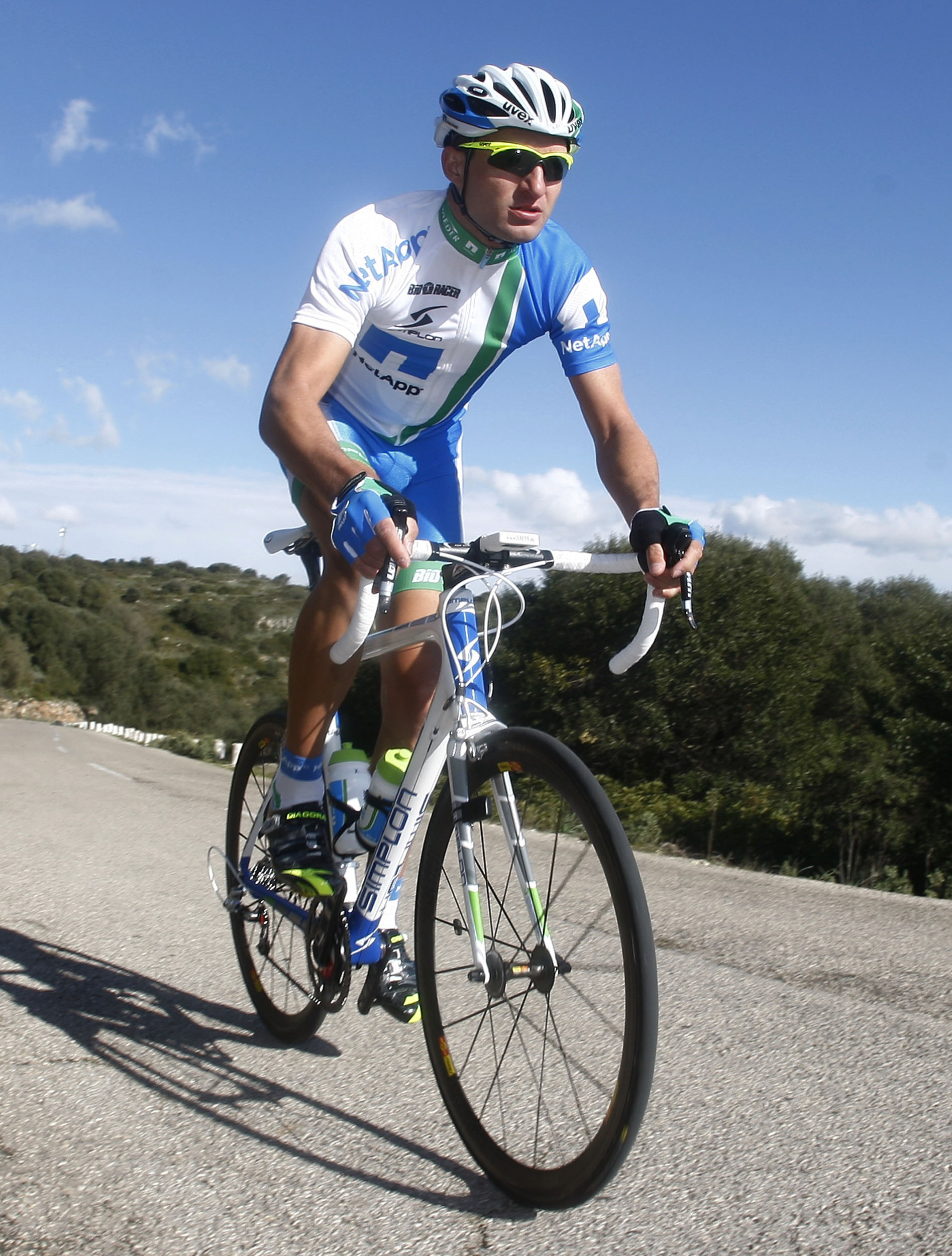 Jan Barta at Team NetApp Fotoshooting at Mallorca